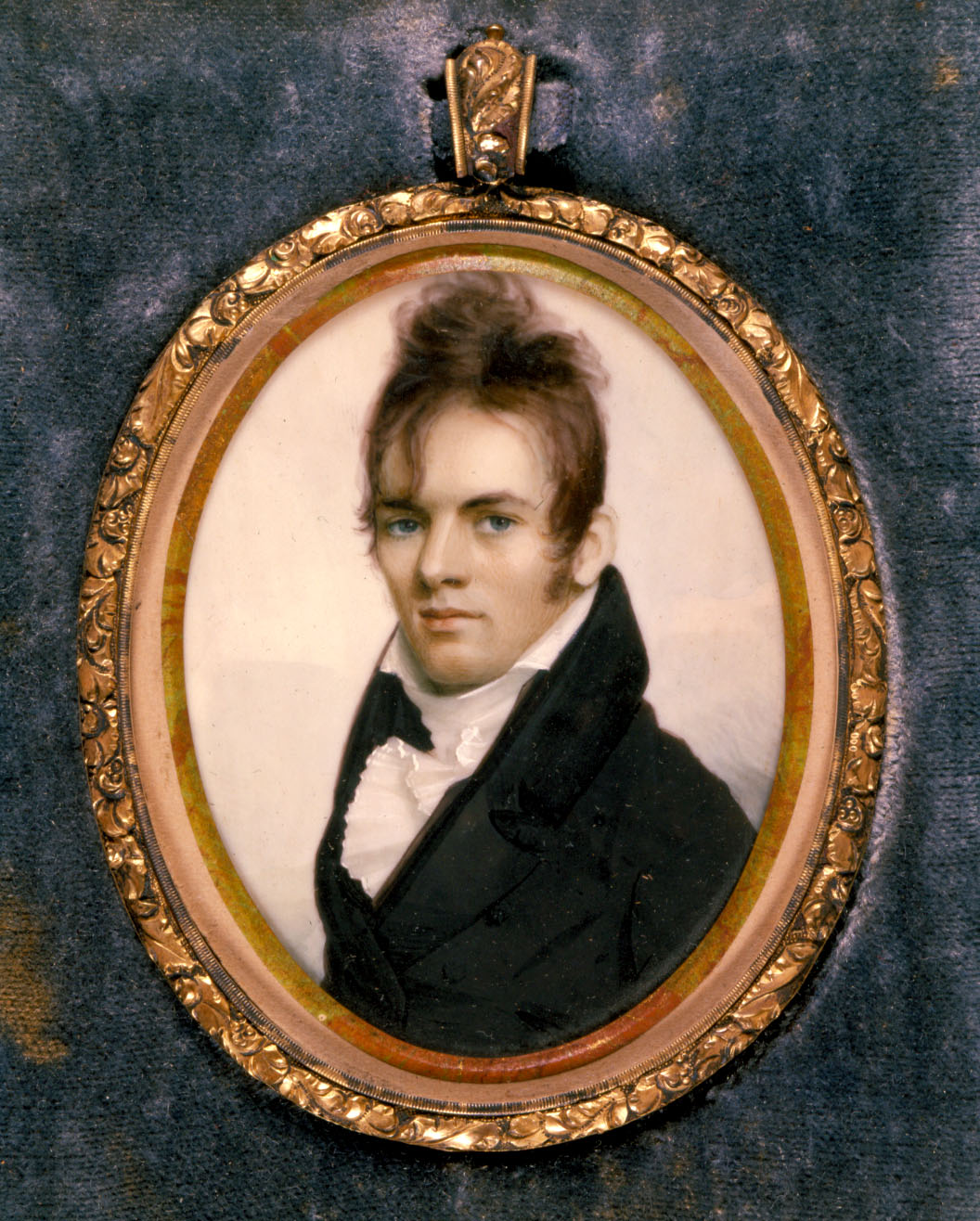 Miniature portrait of Royal Ralph Hinman by Anson Dickinson